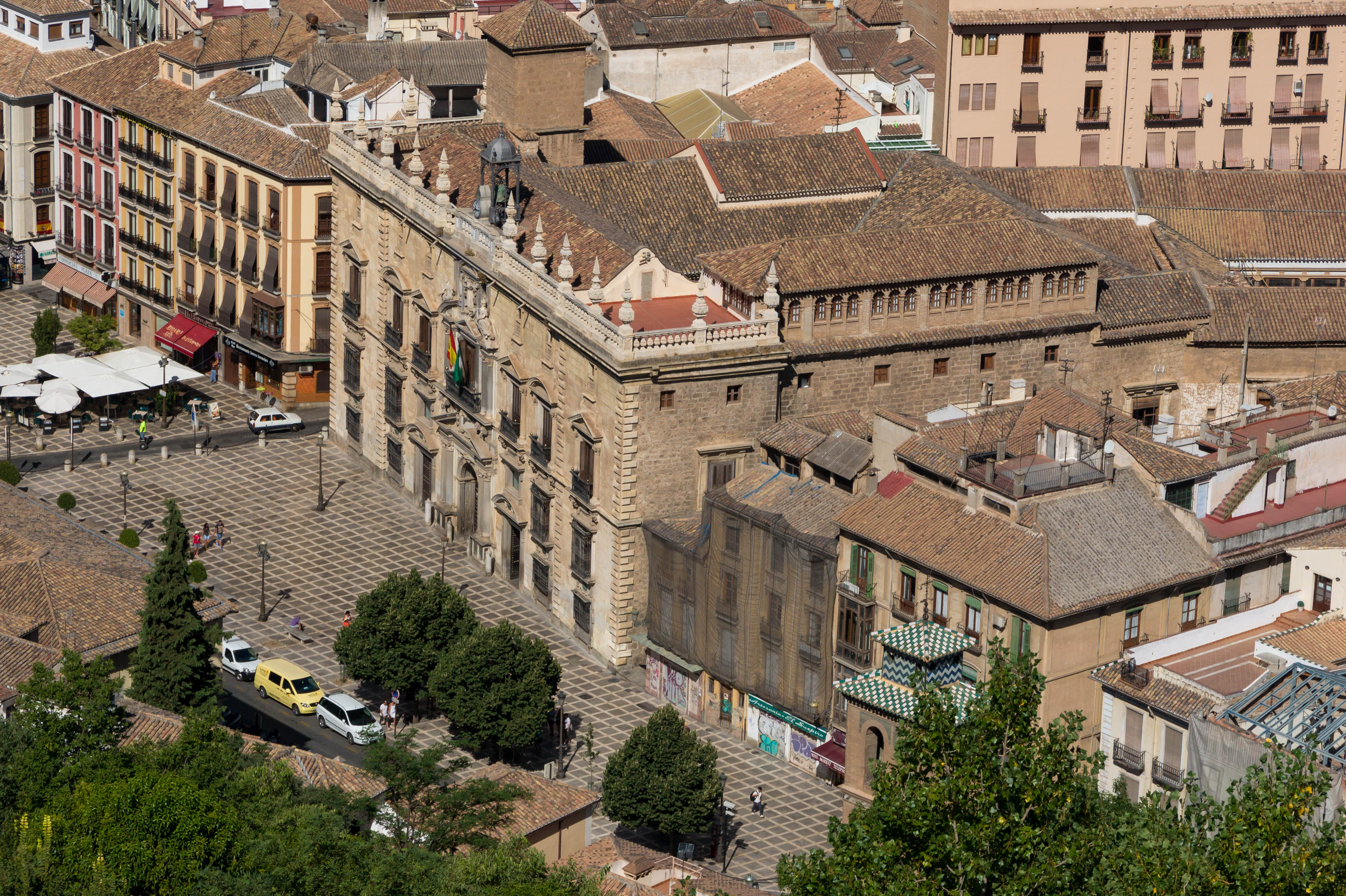 As seen from Alhambra, the Real Chancilleria (16th century, Courthouse) of Granada, Spain.